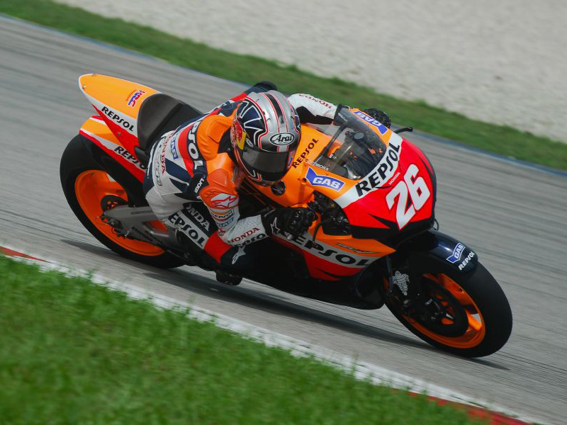 Spanish MotoGP rider Dani Pedrosa powers his Honda during MotoGP pre-season test session at Sepang International Circuit outside Kuala Lumpur January 22, 2007. Rashidi Saleh@jaggat (MALAYSIA)